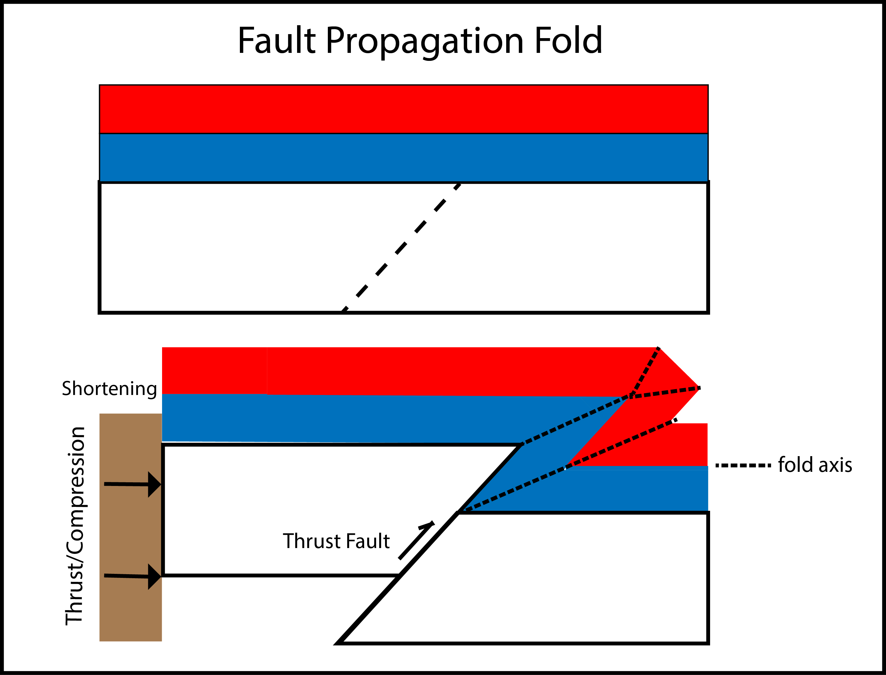 Illustration showing a fault-propagation fold